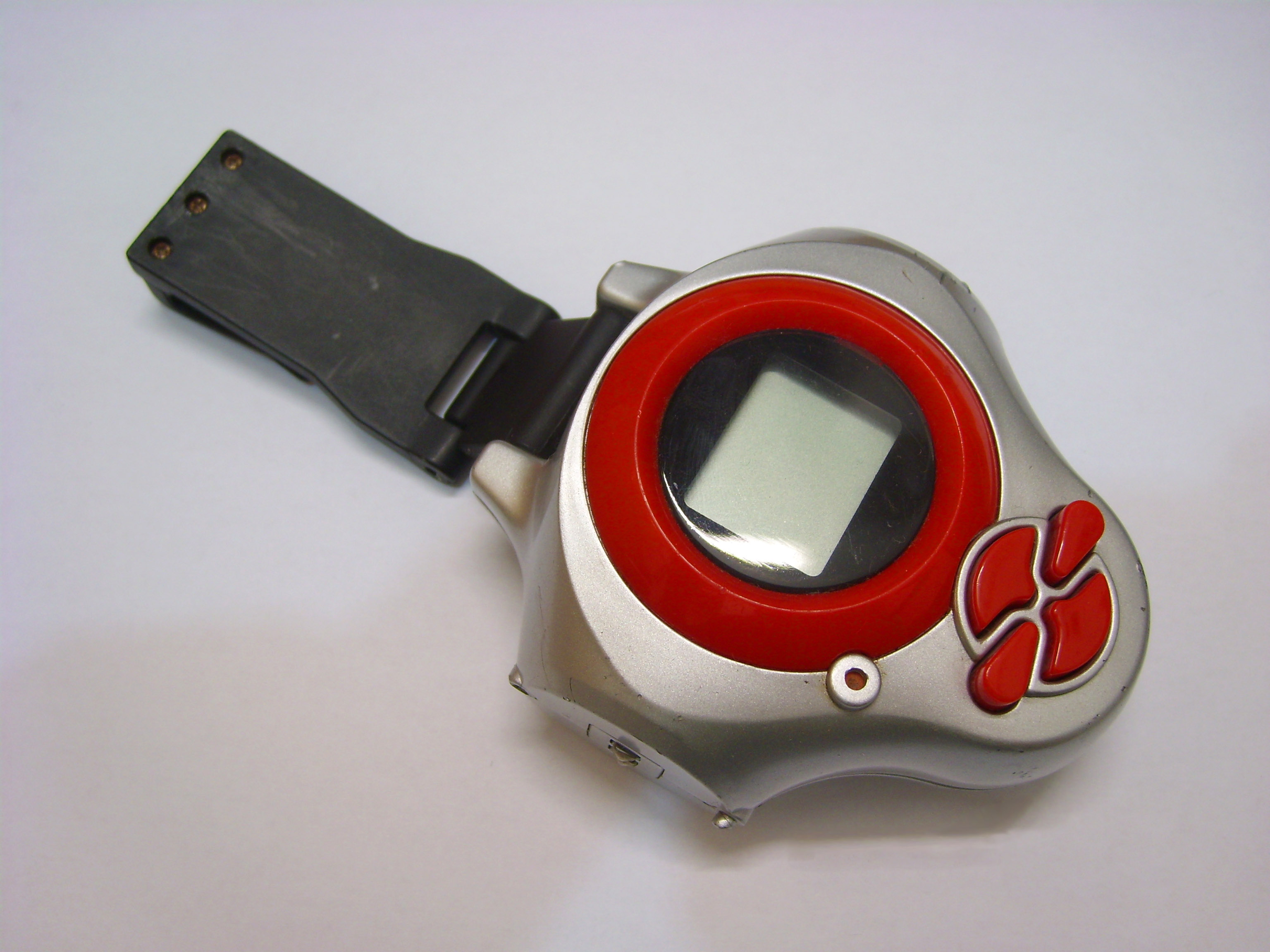 A toy imitating a digivice from the Digimon series. 中文（香港）: 這是數碼暴龍第三代數碼暴龍機的圖片。